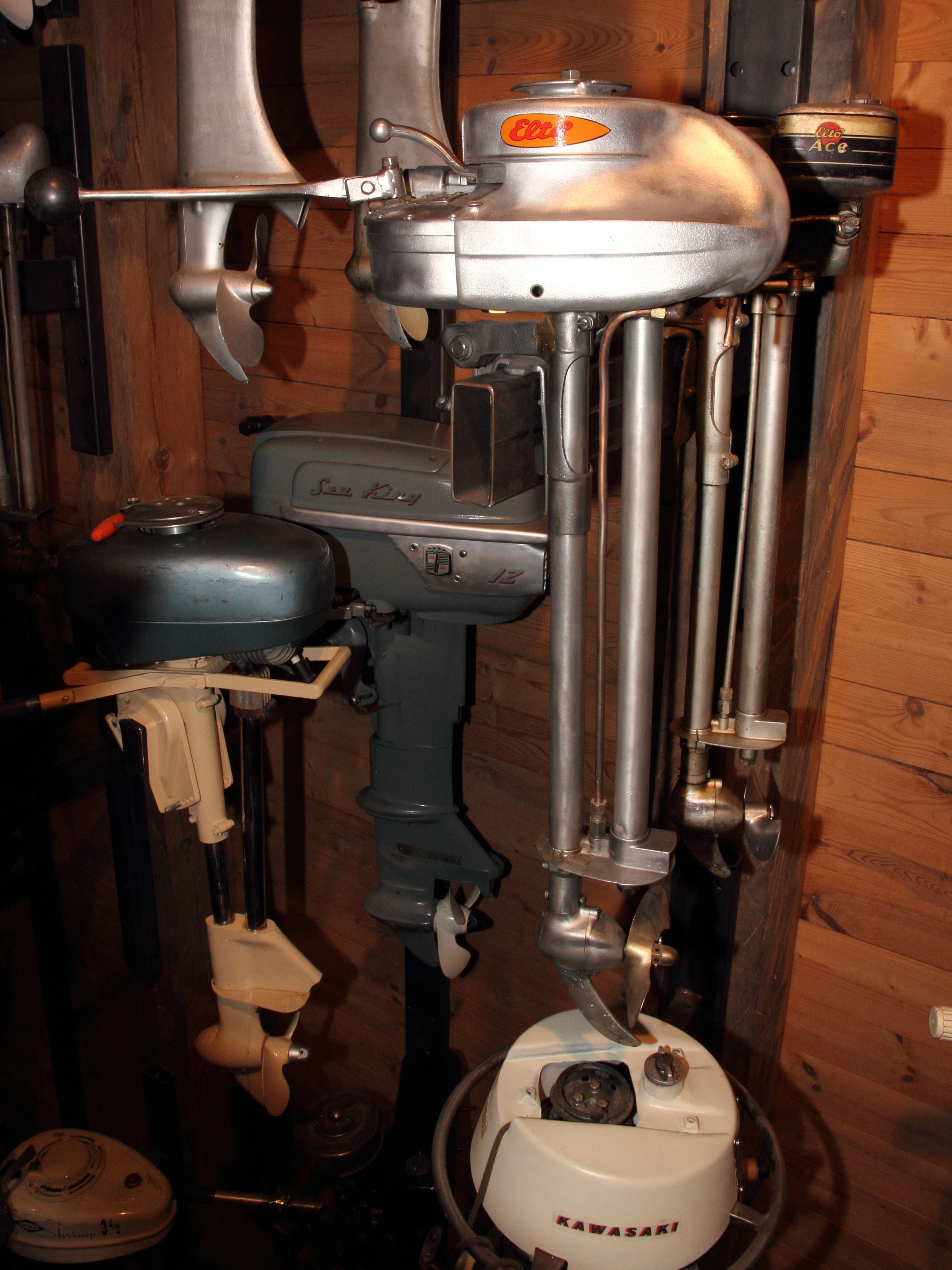 American Elto Sportsman model 1938 and Elto Ace model 1946 outboard motors in Forum Marinum maritime museum.